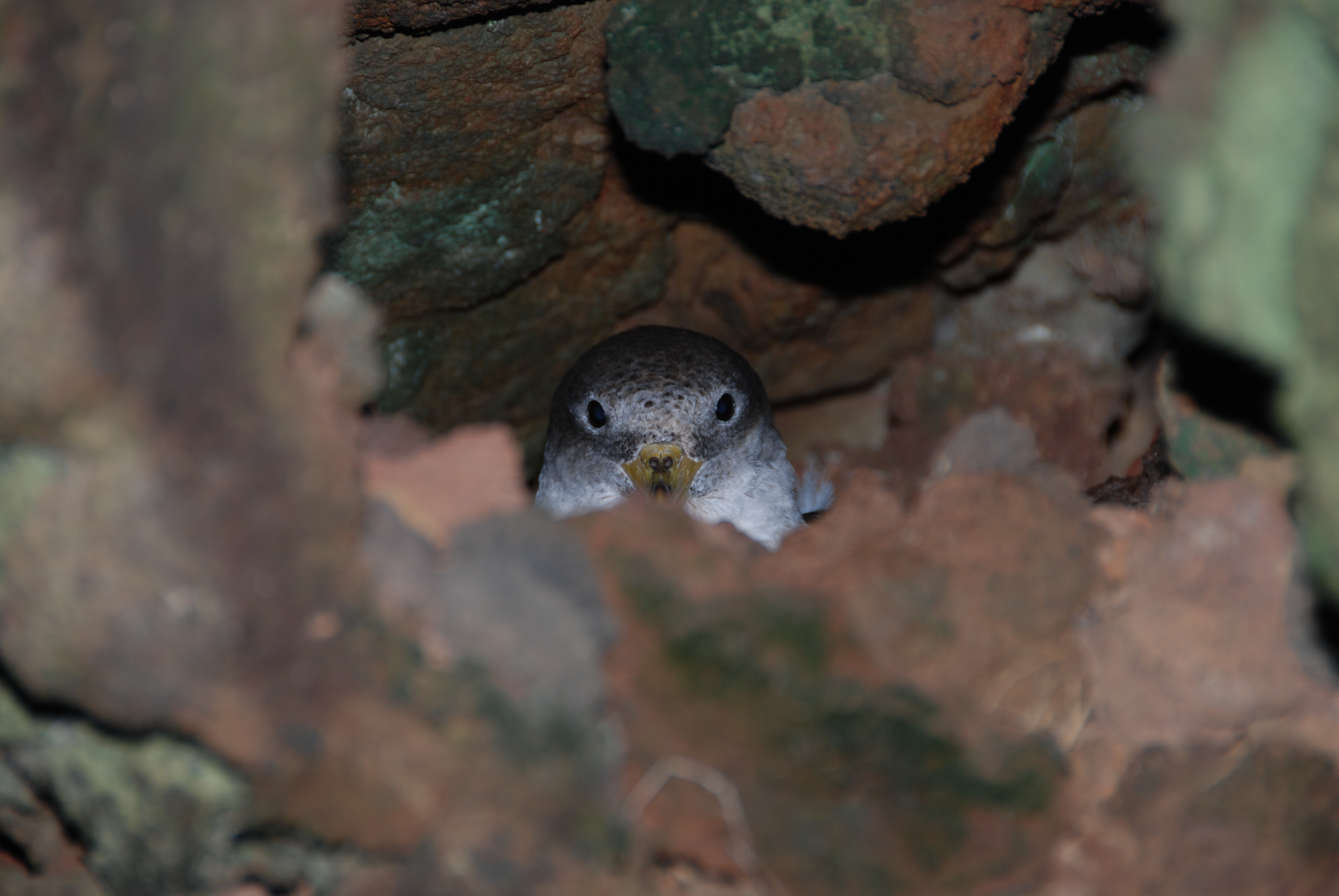 A Cagarro nest in a vulcanic cove on the island of Pico, Azores. The parent animals only feed the small ones during night so as not to attract enemies.